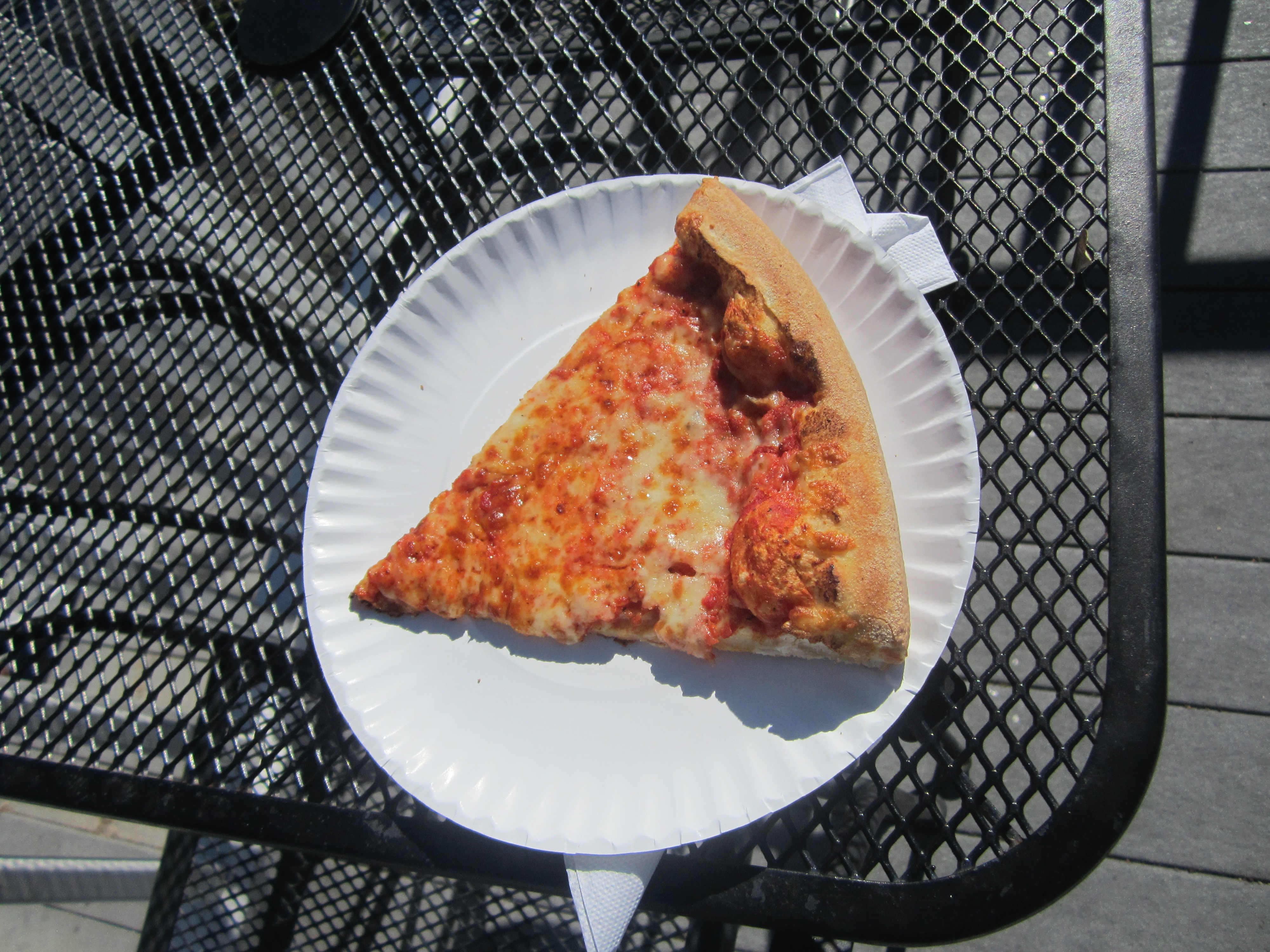 People of Boston, eating PIZZA, Newbury Street, $1 slice of pizza, Trust ME Bernie Madoff Pizza